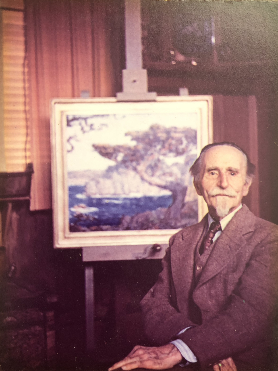 William Posey Silva in front of one of his award winning paintings